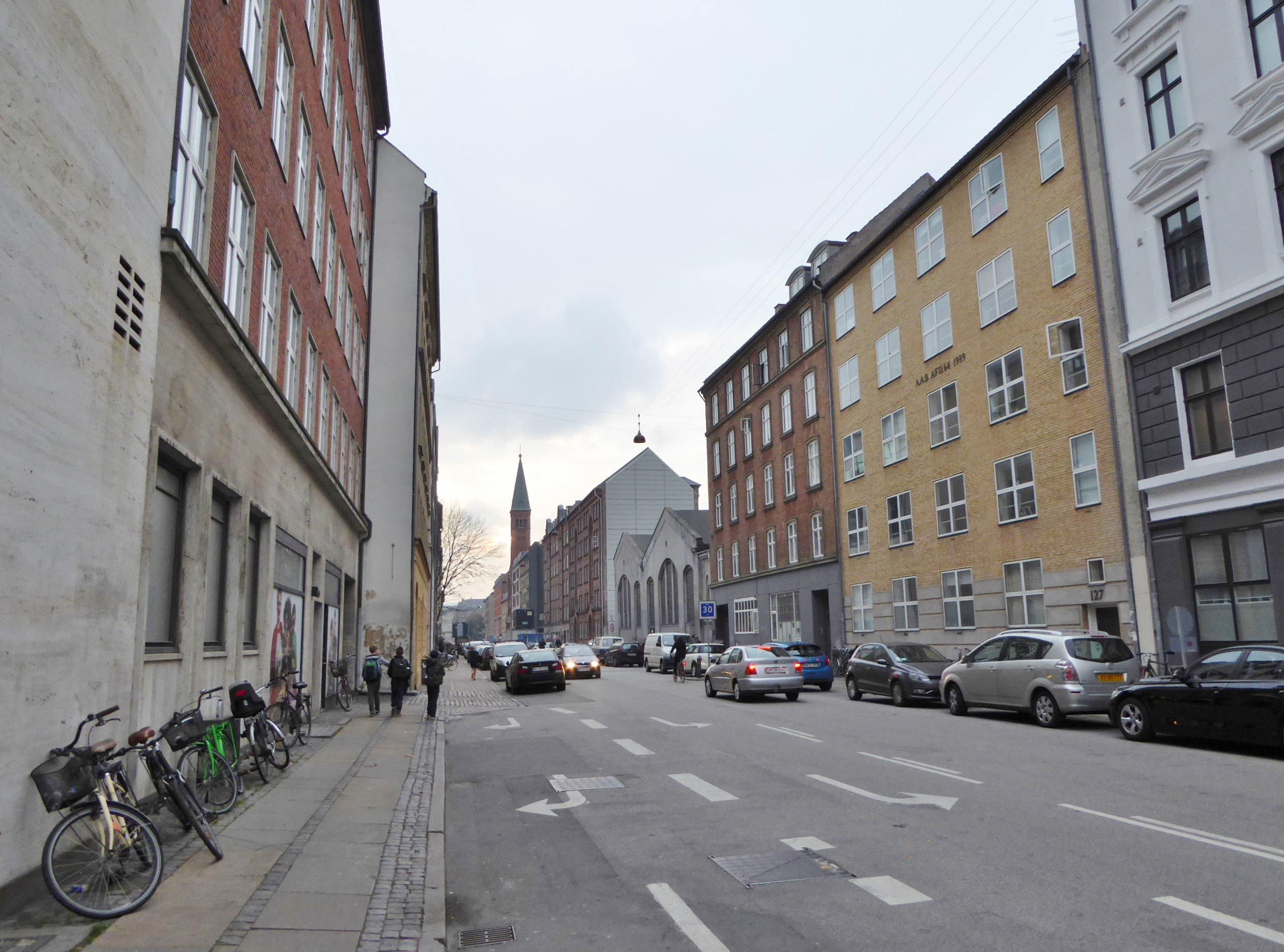 The street Ryesgade in Østerbro in Copenhagen.